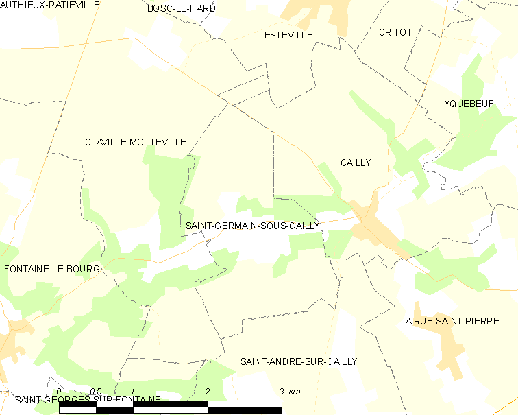 Map of French municipality Saint-Germain-sous-Cailly